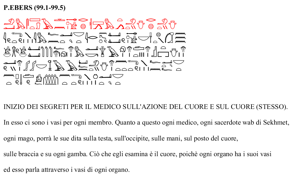 Ebers Papyrus 99.1-99.5 Hieroglyphic trancription and Italian translation